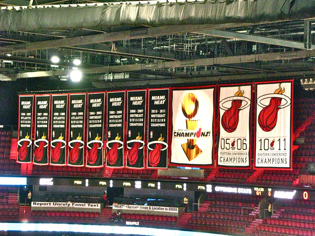 Miami Heat championship banners